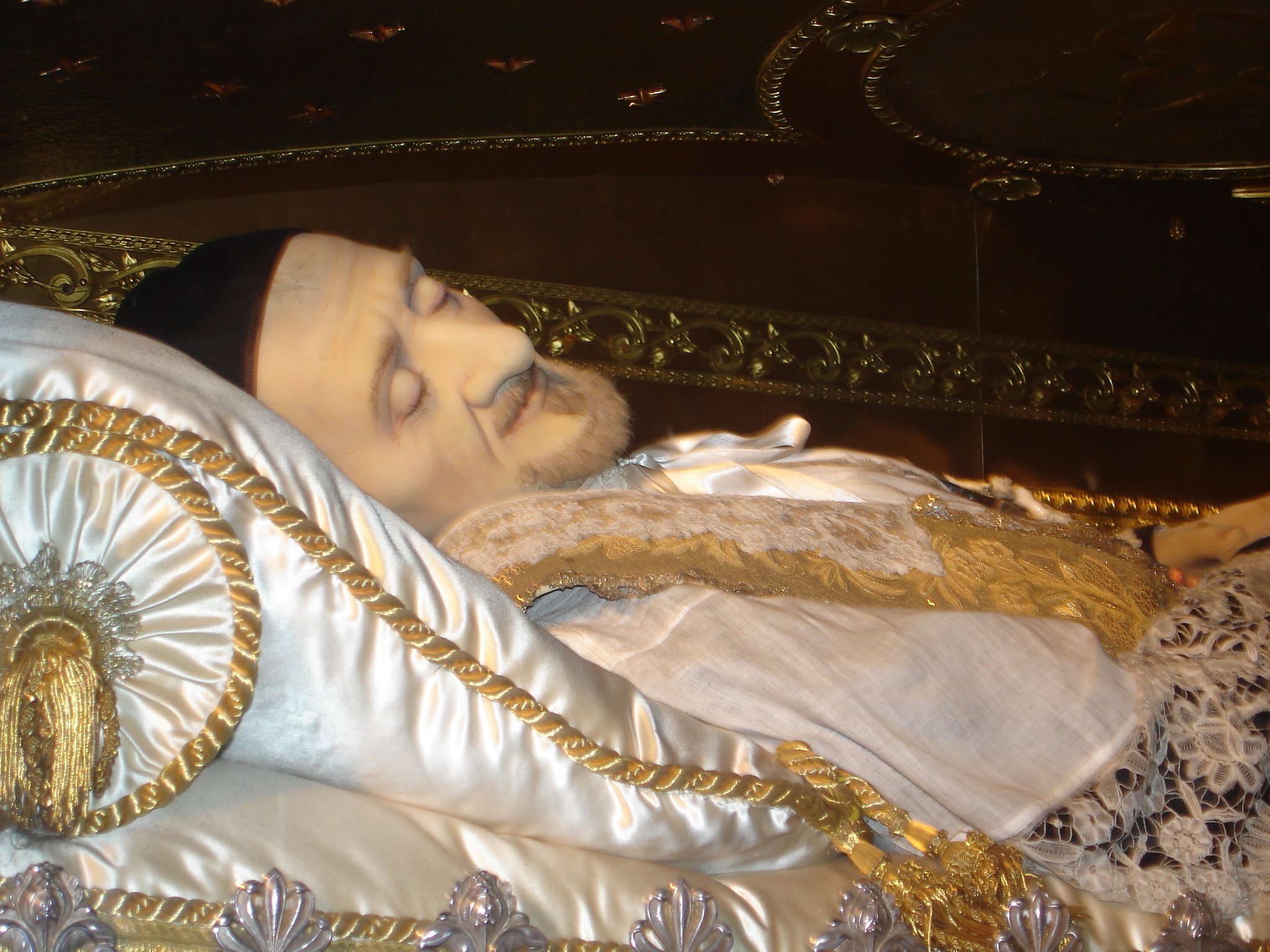 Embalmed body of St. Vincent de Paul, Paris